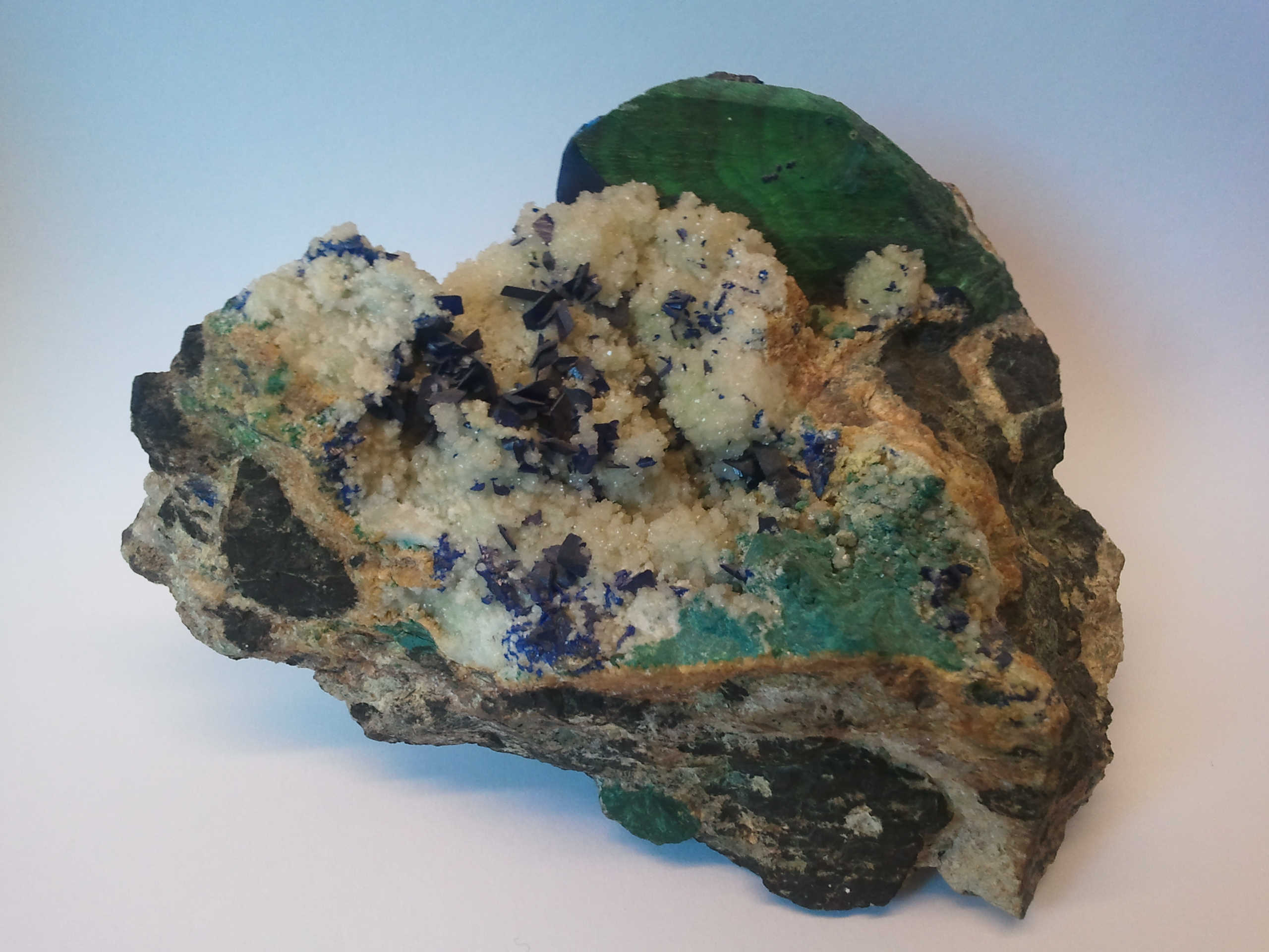 With azurite, and unknown white crystals. From Tsumeb, Namibia.